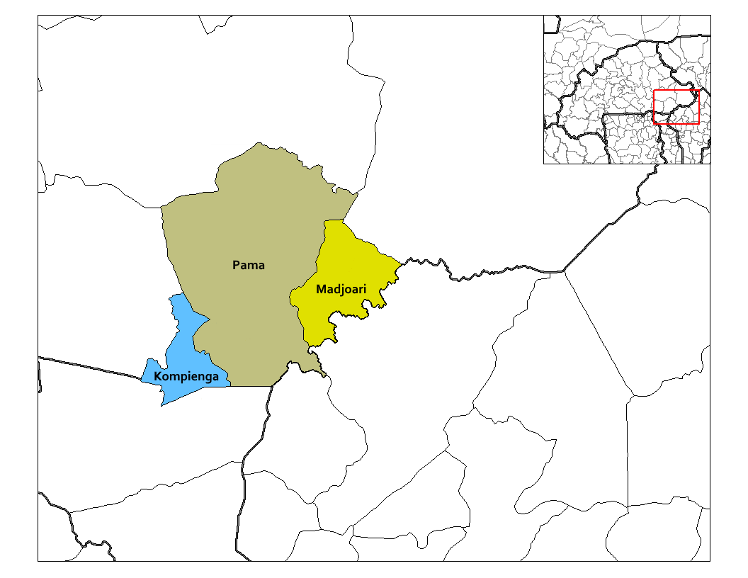 This map has been uploaded by Osiris fancy from to enable the Wikimedia Atlas of the World. Original uploader to was Rarelibra. Osiris fancy is not the creator of this map. Licensing information is below. Map of the Kompienga department in Burkina Faso. Created by Rarelibra 03:23, 30 September 2006 (UTC) for public domain use, using MapInfo Professional v8.5 and various mapping resources.